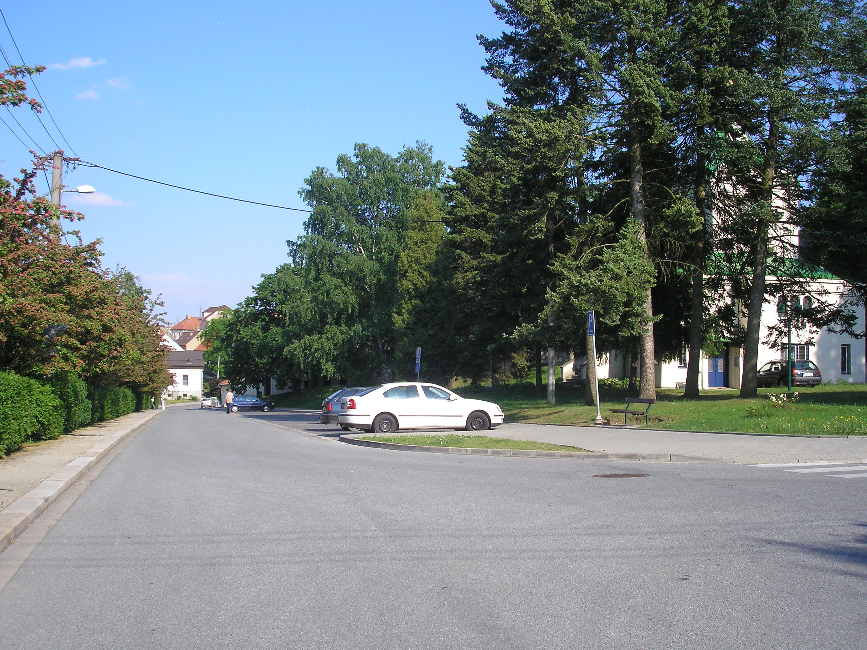 Gorazdovo square in Třebíč